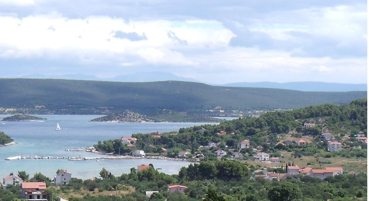 Barotul View From Nearby Semic Hill, showing pier. The building at the end of the pier contains a small mini mart!